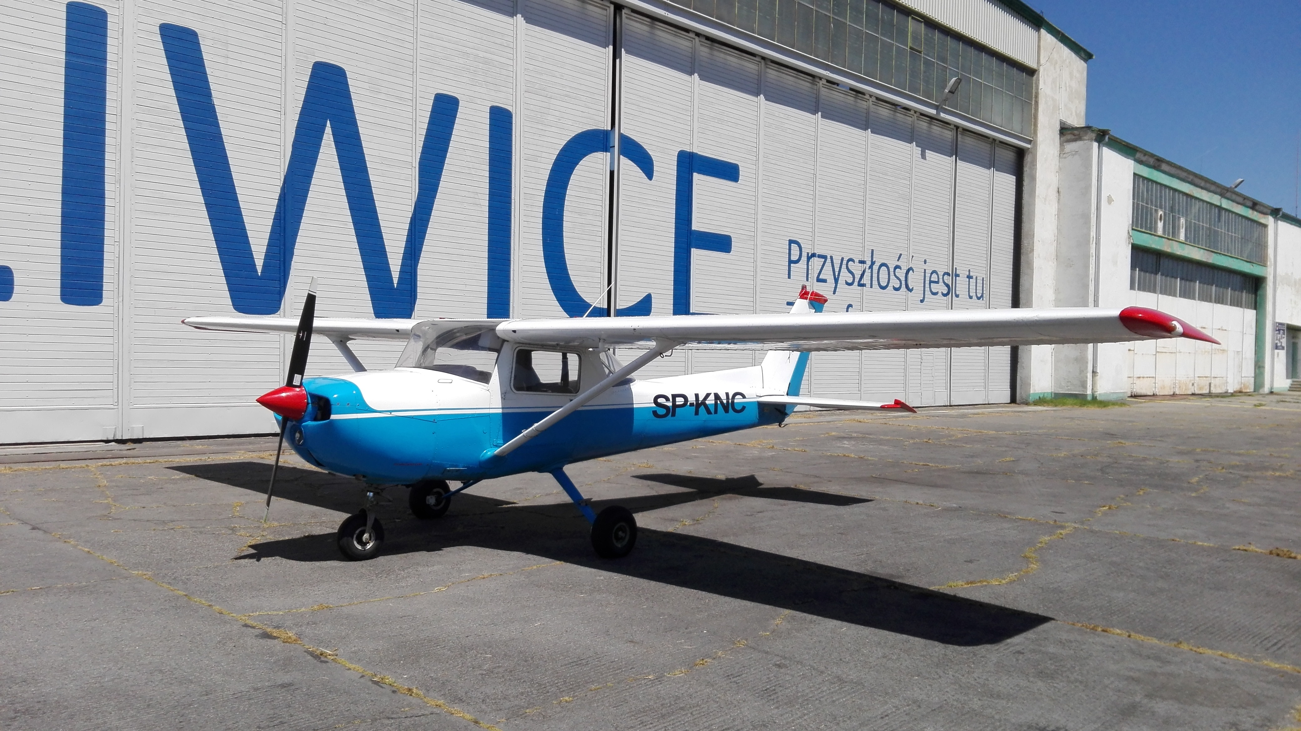 Cessna 150 SP-KNC